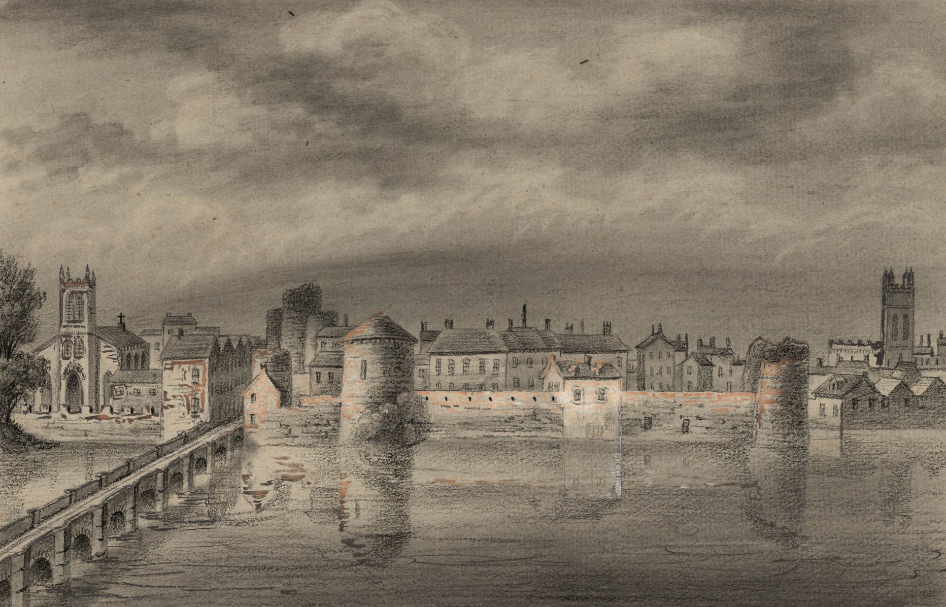 Numerous drawings and landscapes of villages, towns and landmarks in Wales and Ireland. By French artist Alphonse Dousseau.